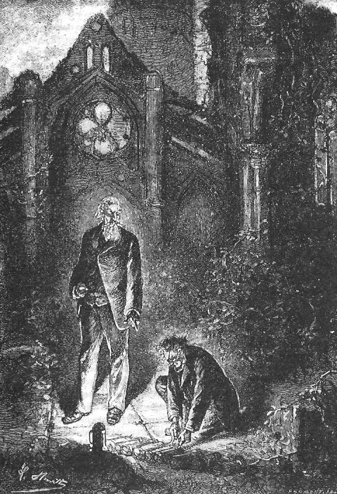 An illustration from Jules Verne's novel "The Carpathian Castle" (also published as "The Castle of the Carpathians", "The Castle in Transylvania", and "Rodolphe de Gortz; or the Castle of the Carpathians").